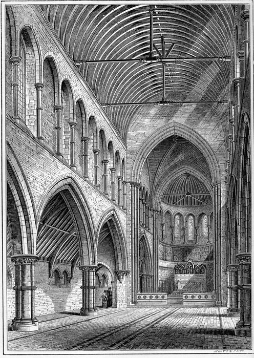 Interior of St Andrew's Church, Plaistow. Frontispiece of Eastlake, Charles L. A History of the Gothic Revival. London: Longmans, Green; N.Y. Scribner, Welford, 1872. [Copy in Brown University's Rockefeller Library]